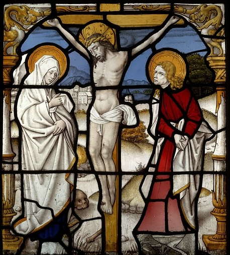 Crucifixion, stain glass panel from Germany